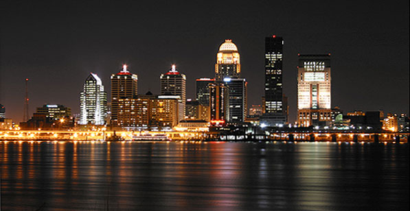 Louisville nighttime skyline, by user Fleur-Design on Flickr [1], under a compatible Creative Commons license. I reduced, cropped, slightly rotated, and sharpened the image, and I release my changes using the same license.